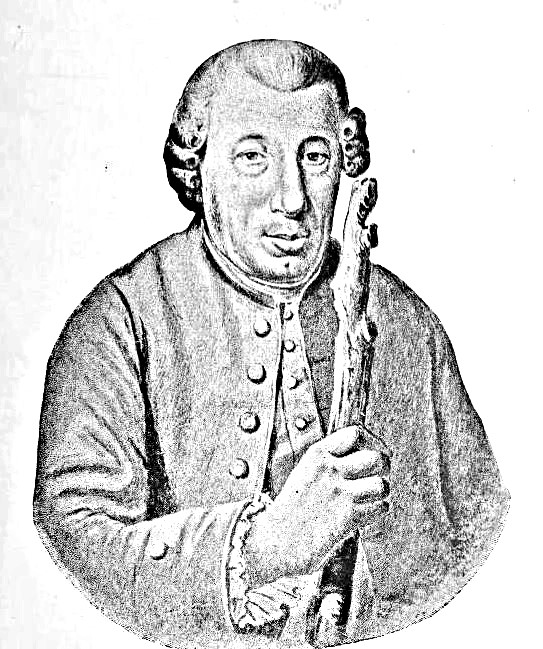 Amable Faucon, auvergnat language writer. Amable Faucon, écrivain de langue auvergnate.